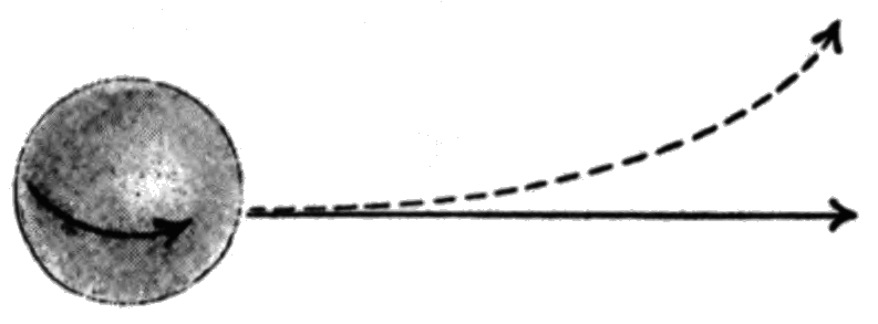 Dynamics of the golf ball